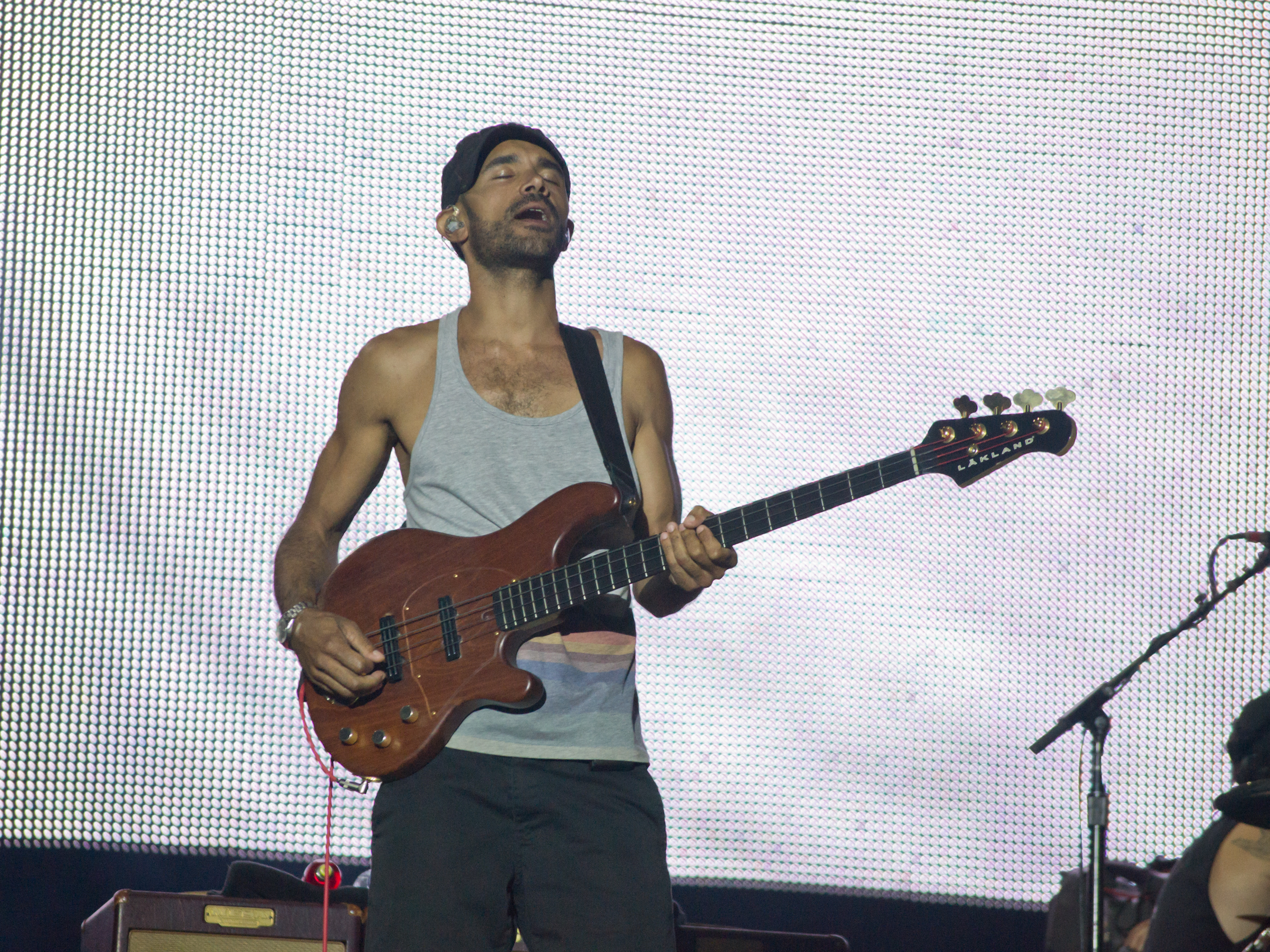 Incubus in Rock in Rio Madrid 2012.